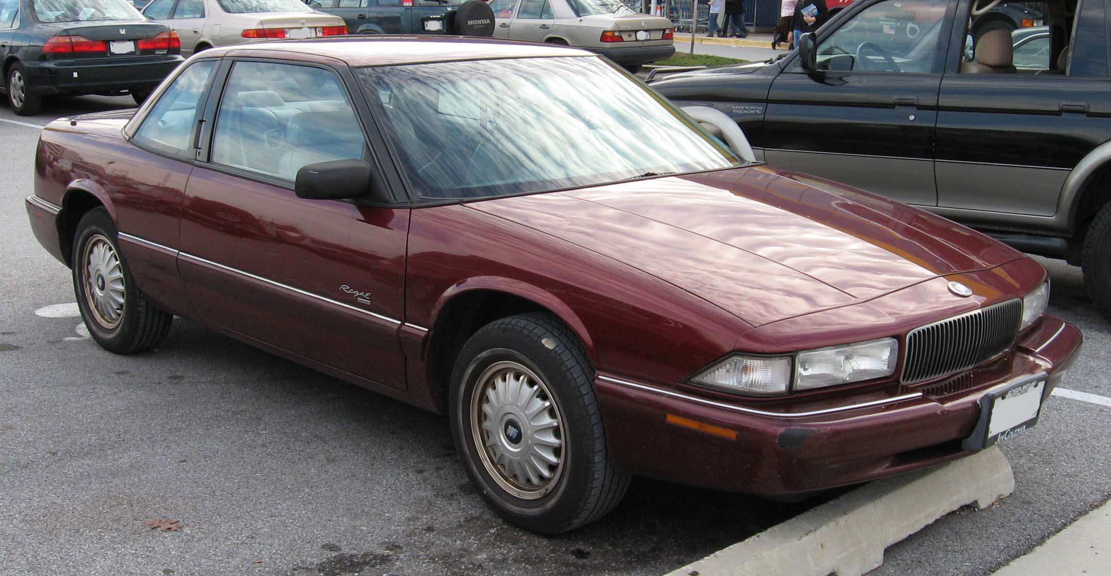 1988-1996 Buick Regal coupe photographed in USA.